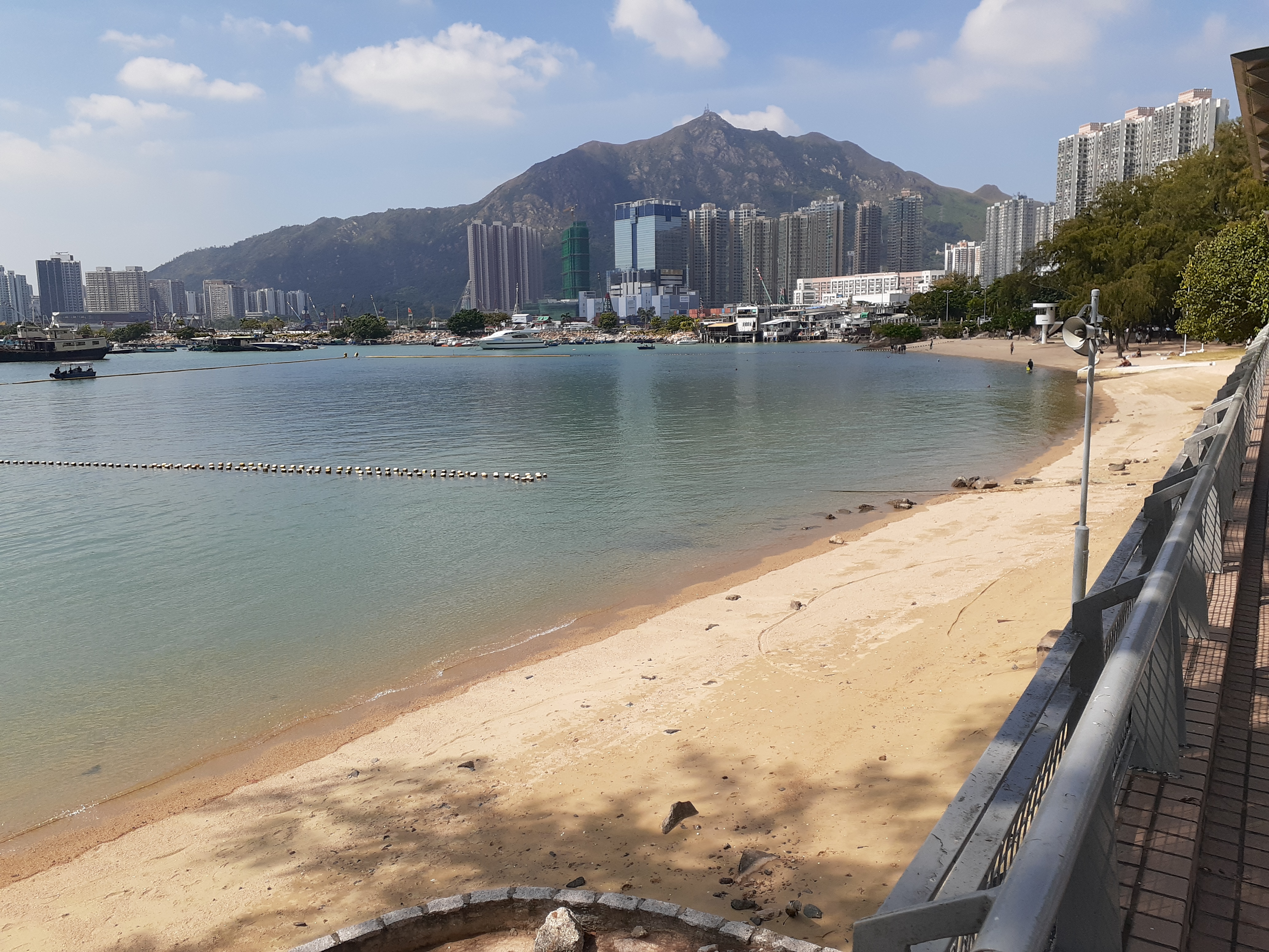 HK 屯門 Tuen Mun 青山公路 Peak Castle Road 青山灣段 Peak Castle Bay in November 2019